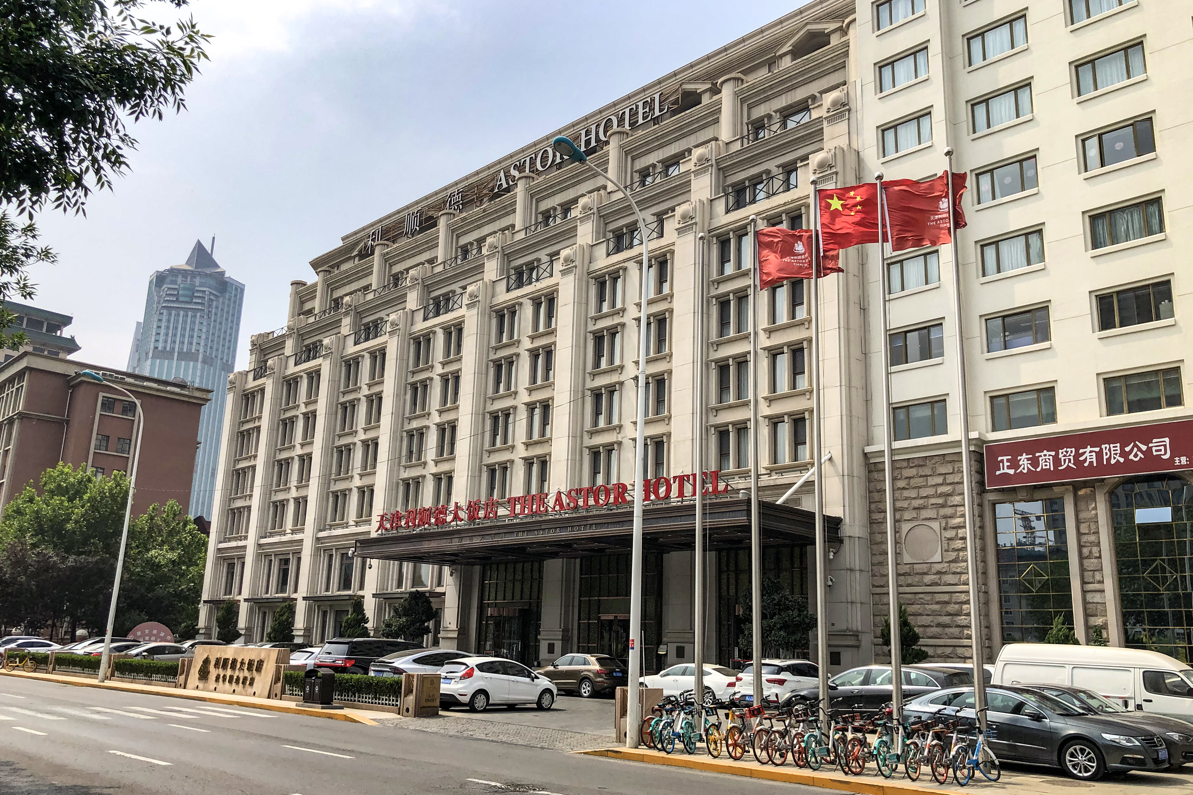 Built in 1980s.